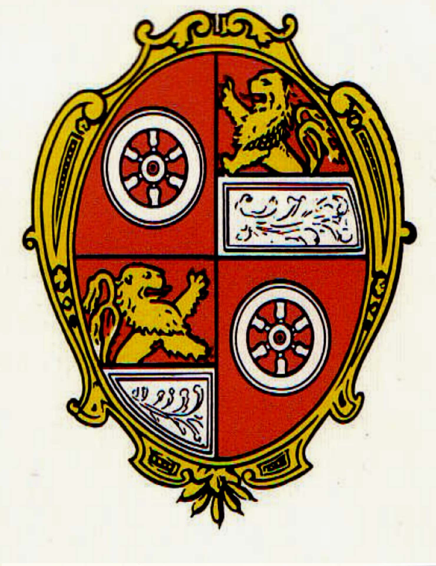 Philipp Karl von Eltz-Kempenich